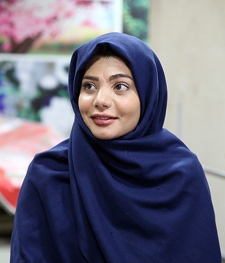 Sara Abdulmaleki